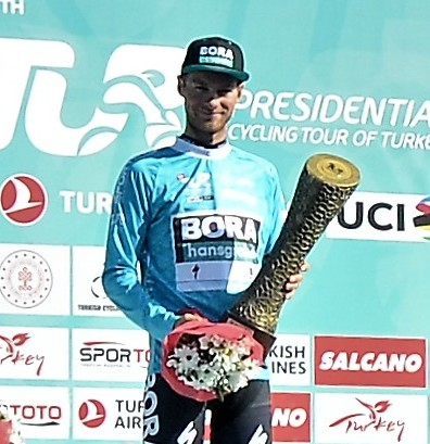 Winners of the General classification at the 55th Presidential Cycling Tour of Turkey 2019 at at the award ceremony. From left to right: runner-up Valerio Conti (UAE Team Emirates), winner Felix Großschartner (Bora–Hansgrohe), 3rd place Merhawi Kudus (Astana Pro Team).